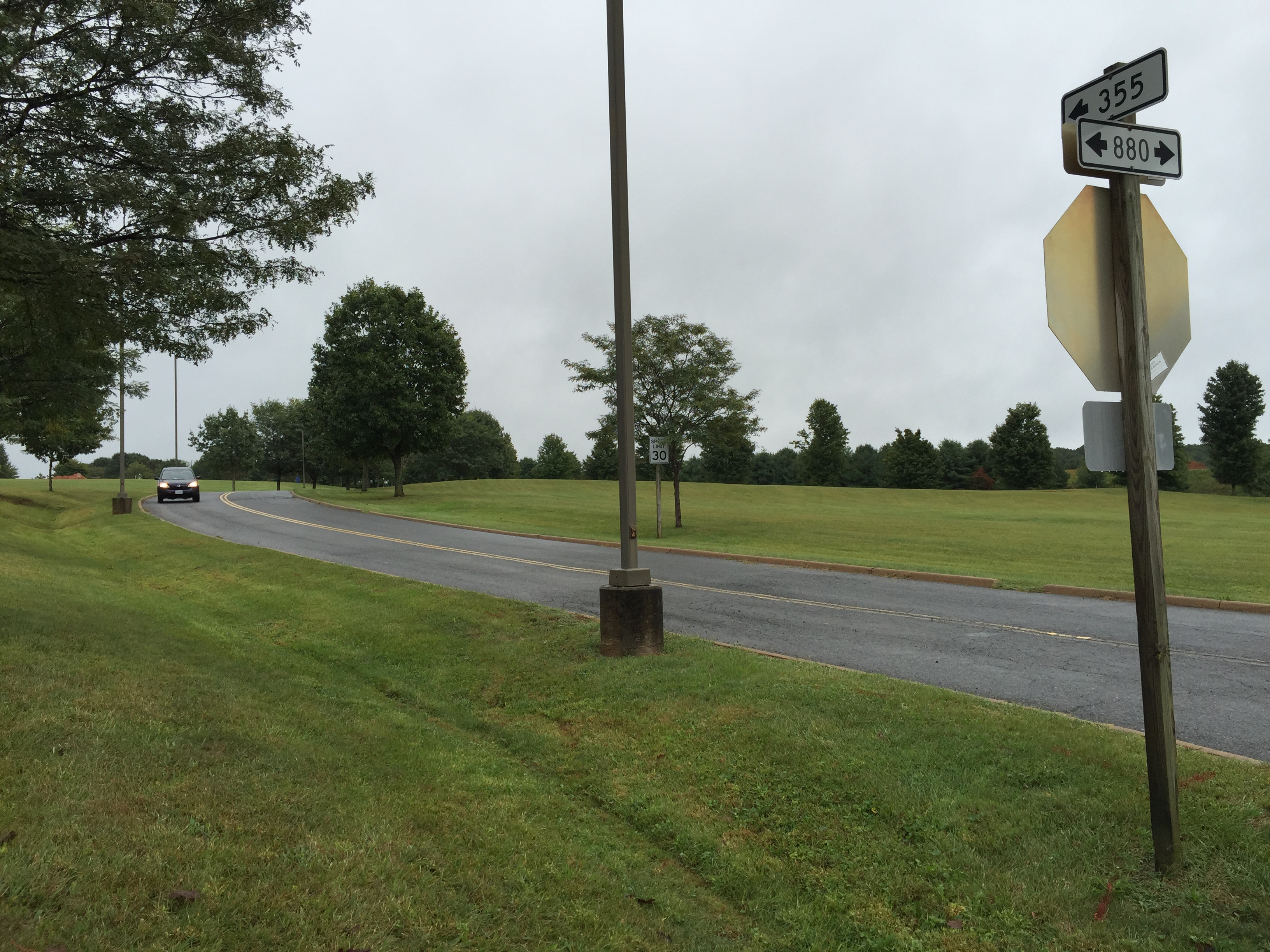 View east along Virginia State Route 355 (College Street) at Bingham Road (Virginia State Secondary Route 880) at the Lord Fairfax Community College just south of Warrenton in Fauquier County, Virginia